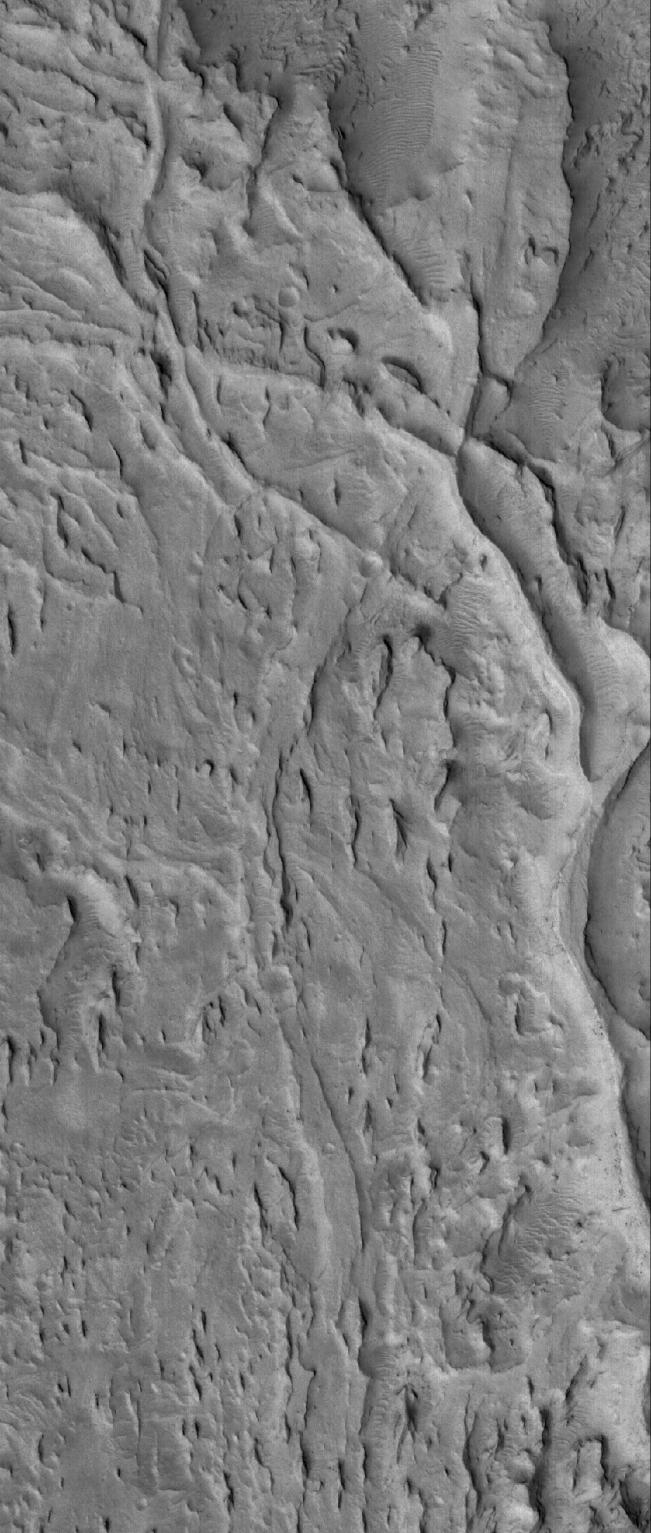 Original Caption Released with Image: 13 April 2006 This Mars Global Surveyor (MGS) Mars Orbiter Camera (MOC) image shows ridges exposed by erosion in the Aeolis region of Mars. The curved and crisscrossing ridges were once channels in a fan of sediment deposited in the Aeolis lowlands. The channels were more resistant to wind erosion than the surrounding materials, so today they are left standing as ridges rather than valleys. Location near: 6.1°S, 209.0°W Image width: ~3 km (~1.9 mi) Illumination from: lower left Season: Southern Summer Image Credit: NASA/JPL/Malin Space Science Systems Original image found at: [1]